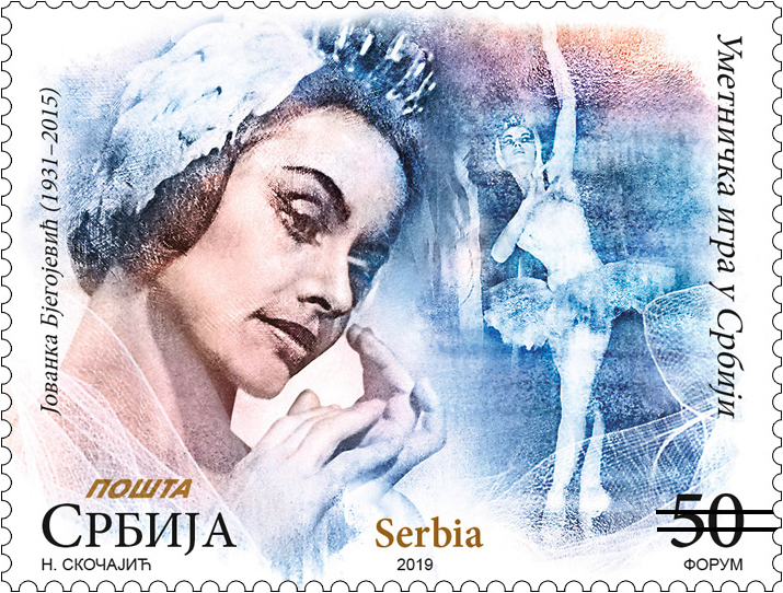 Jovanka Bjegojević